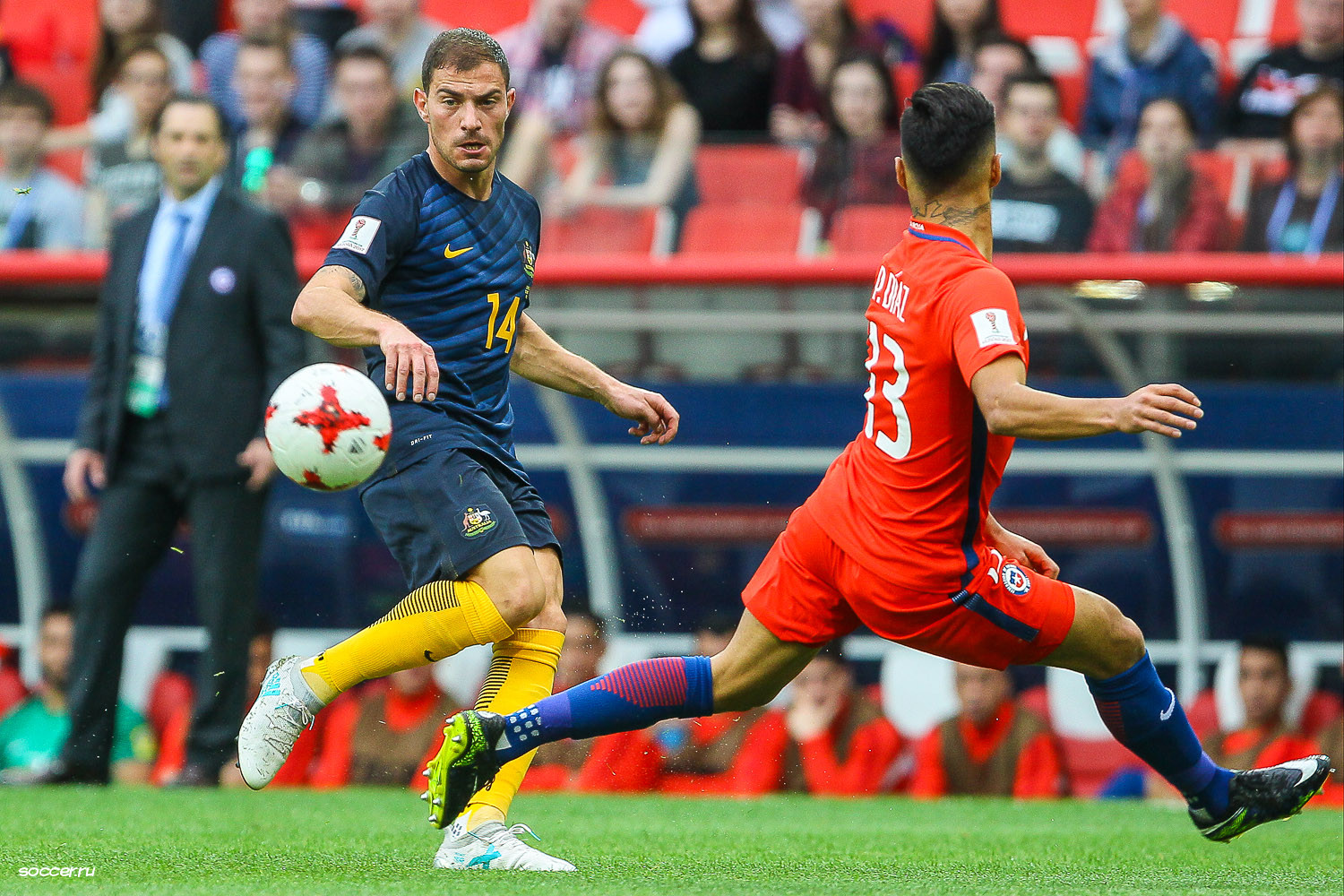 Chile VS. Australia 1 - 1, 25 June 2017